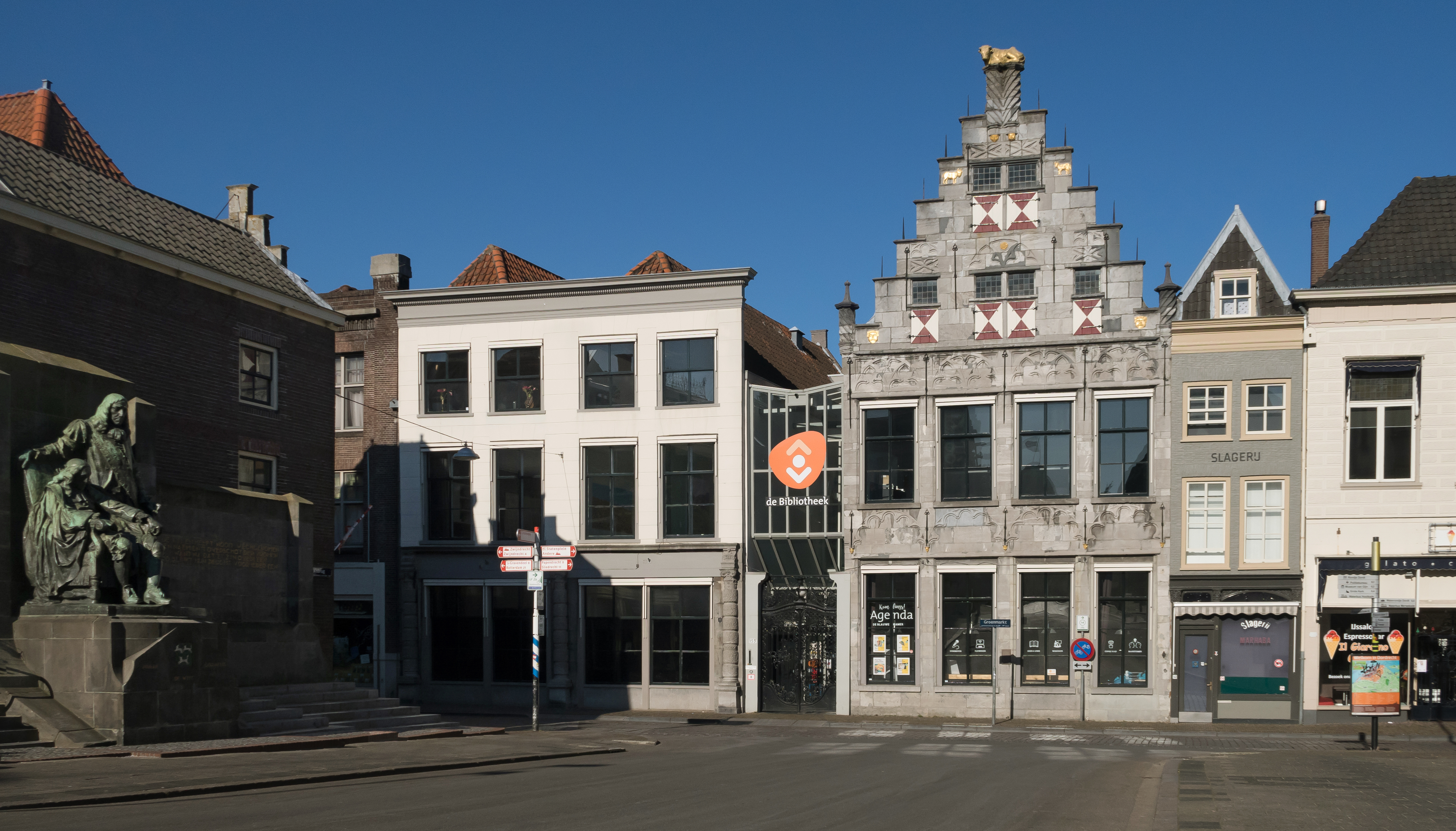 Dordrecht, street view Visbrug-Groenmarkt left: statue brothers De Witt, right two monumental houses (butcher's shop and ice cream parlor)